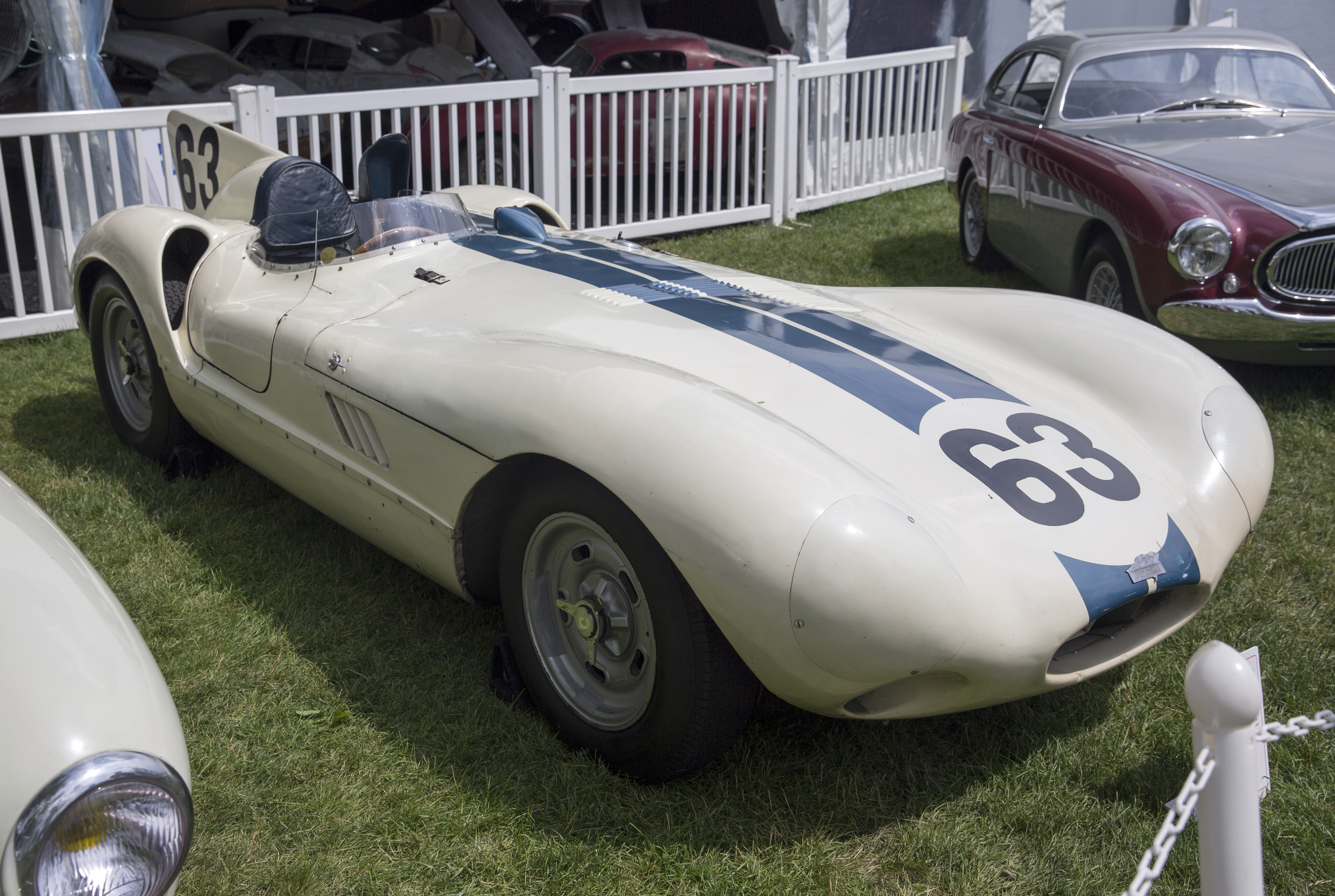 1955 Cunningham C6-R at the 2018 Greenwich Concours d'Elegance. Originally fitted with an Offenhauser engine which was insufficiently modified to run on the petrol specified at Le Mans; suffered piston failure after 19 hours. It currently belongs to the Revs Institute and is fitted with a Jaguar engine. Behind (in the shade) can be seen a gaggle of barnfind Abarths and the Vignale-bodied Ferrari that inspired the Cunningham C3.